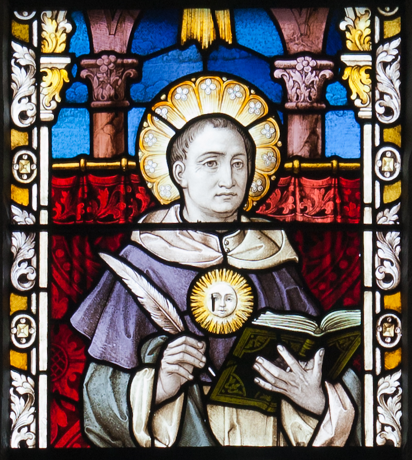 Detail of left stained glass window of the sixth bay of the west aisle, depicting Saint Thomas Aquinas.